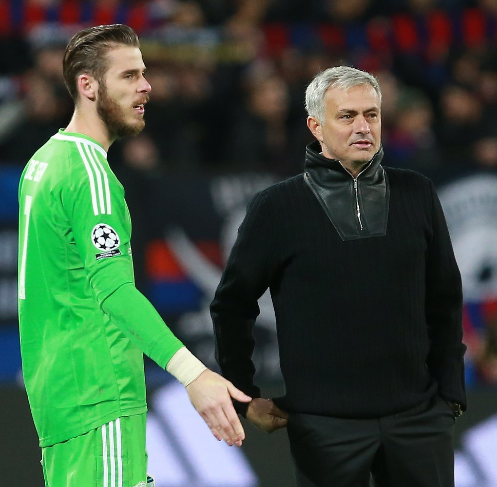 José Mourinho, David de Gea